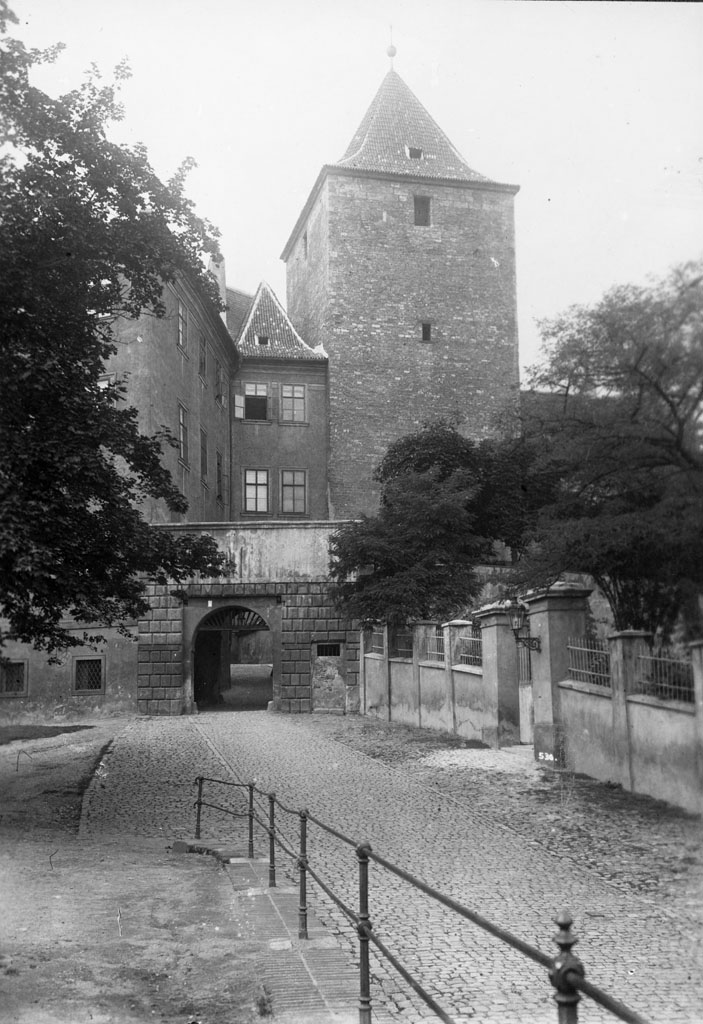 The Black Tower at Prague Castle. Svarta tornet vid slottet i Prag i Böhmen, Tjeckien. Location: Prague, Praha, Bohemia, the Czech Republic Photograph by: Unknown Date: c. 1927 Format: Print Persistent URL: Read more about the photo database (in english)